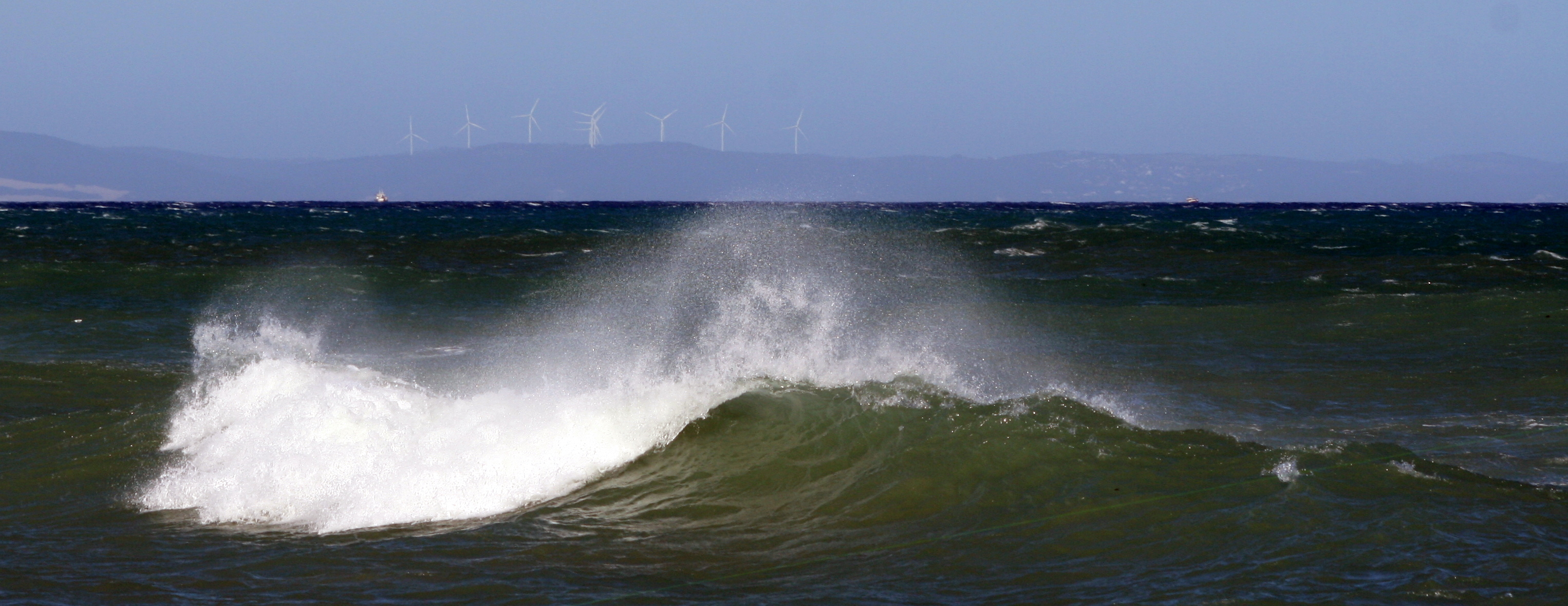 Van Stadens Wind Farm, Easten Cape, South Africa, seen from Aston Bay